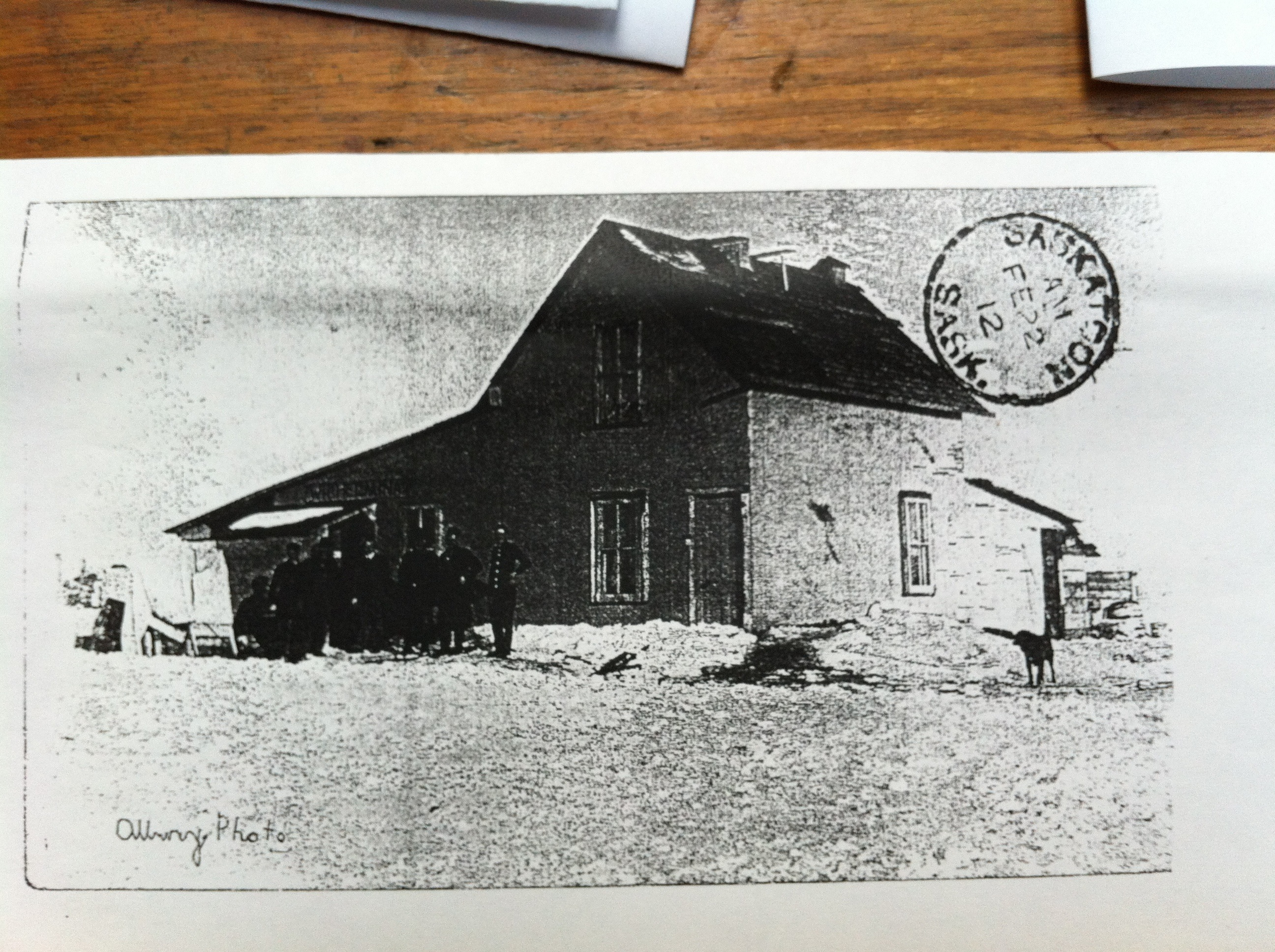 Earliest Post Office